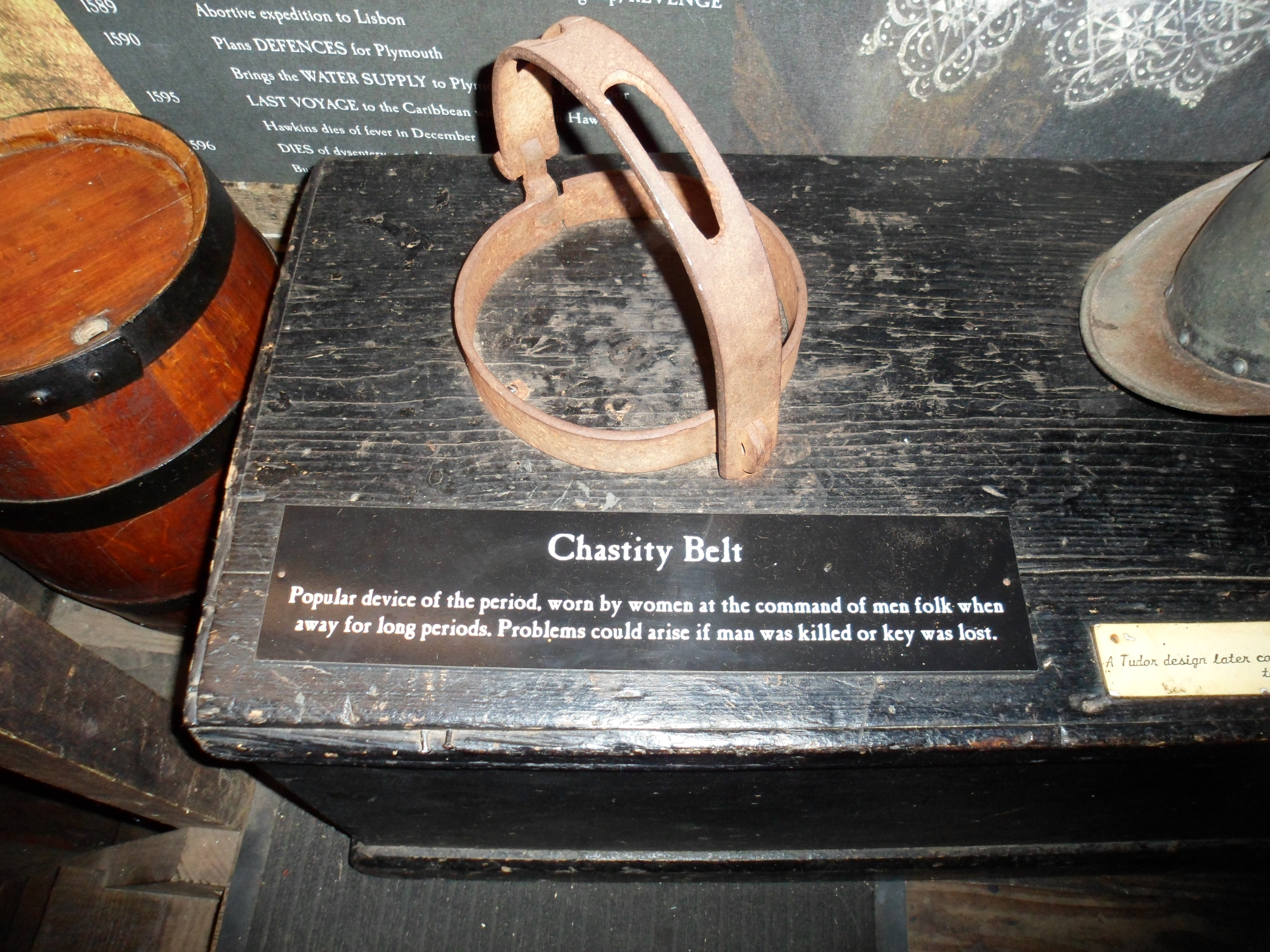 Photographed in 2012 at 'Golden Hind' museum, Brixton. -Re use is free but conditional upon your acknowledgement of Laura J ( as photographer and provision of website link.